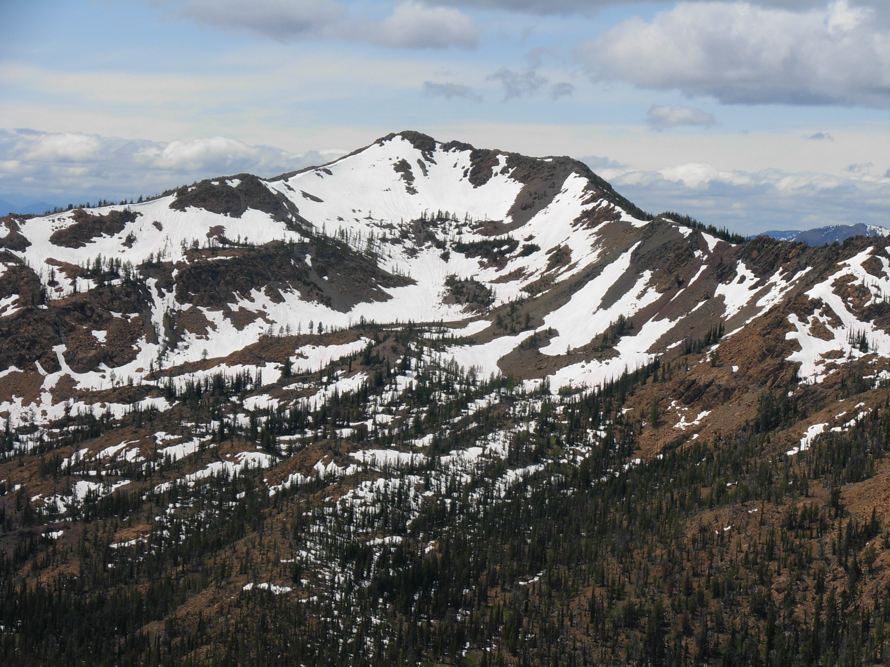 Earl Peak's east aspect seen from near Navaho Peak